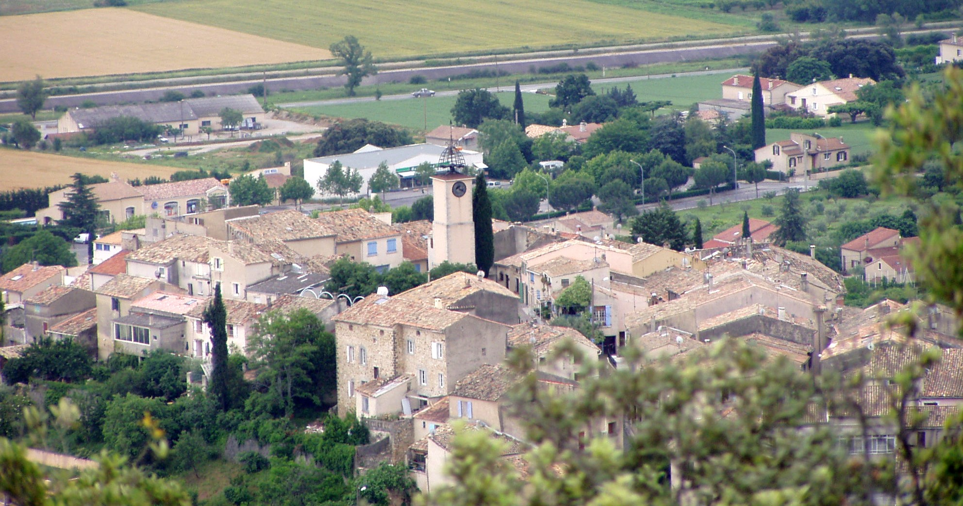 The village of Villeneuve